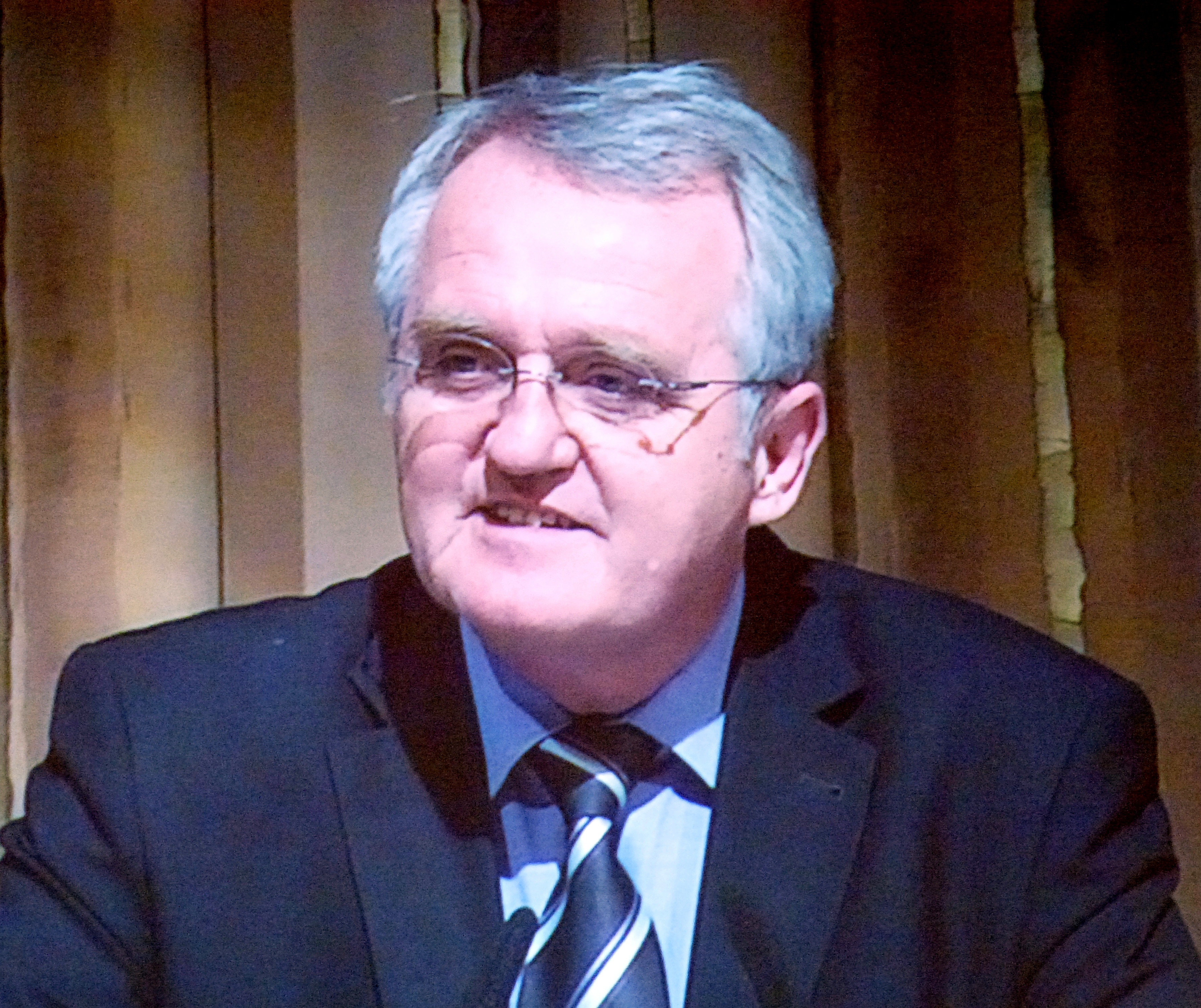 Rainer Wieland, Member of the European Parliament